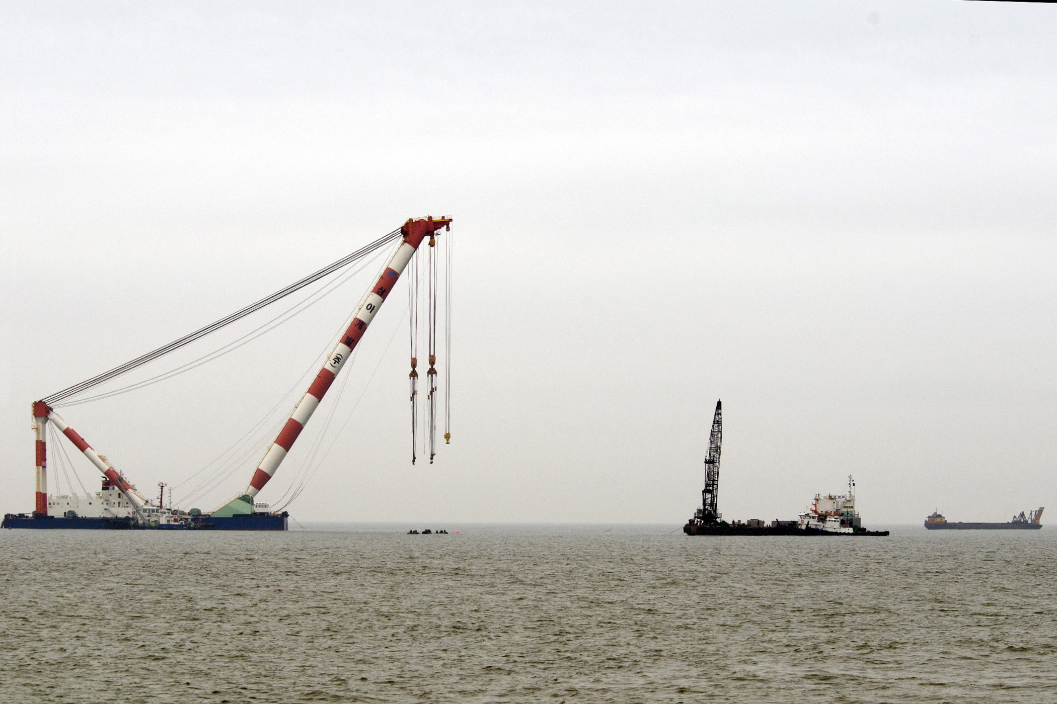 YELLOW SEA (April 5, 2010) The Republic of Korea (ROK) salvage and recovery site, as seen from the Military Sealift Command rescue and salvage ship USNS Salvor (T-ARS 52). U.S. Navy forces are supporting the ROK in recovery and salvage efforts for the ROK Navy frigate Cheonan, which sank March 27 in the Yellow Sea near the western sea border with North Korea. The forces include the USNS Salvor, USS Harpers Ferry, USS Curtis Wilbur, and USS Lassen. (U.S. Navy photo by Mass Communication Specialist 2nd Class Byron C. Linder)